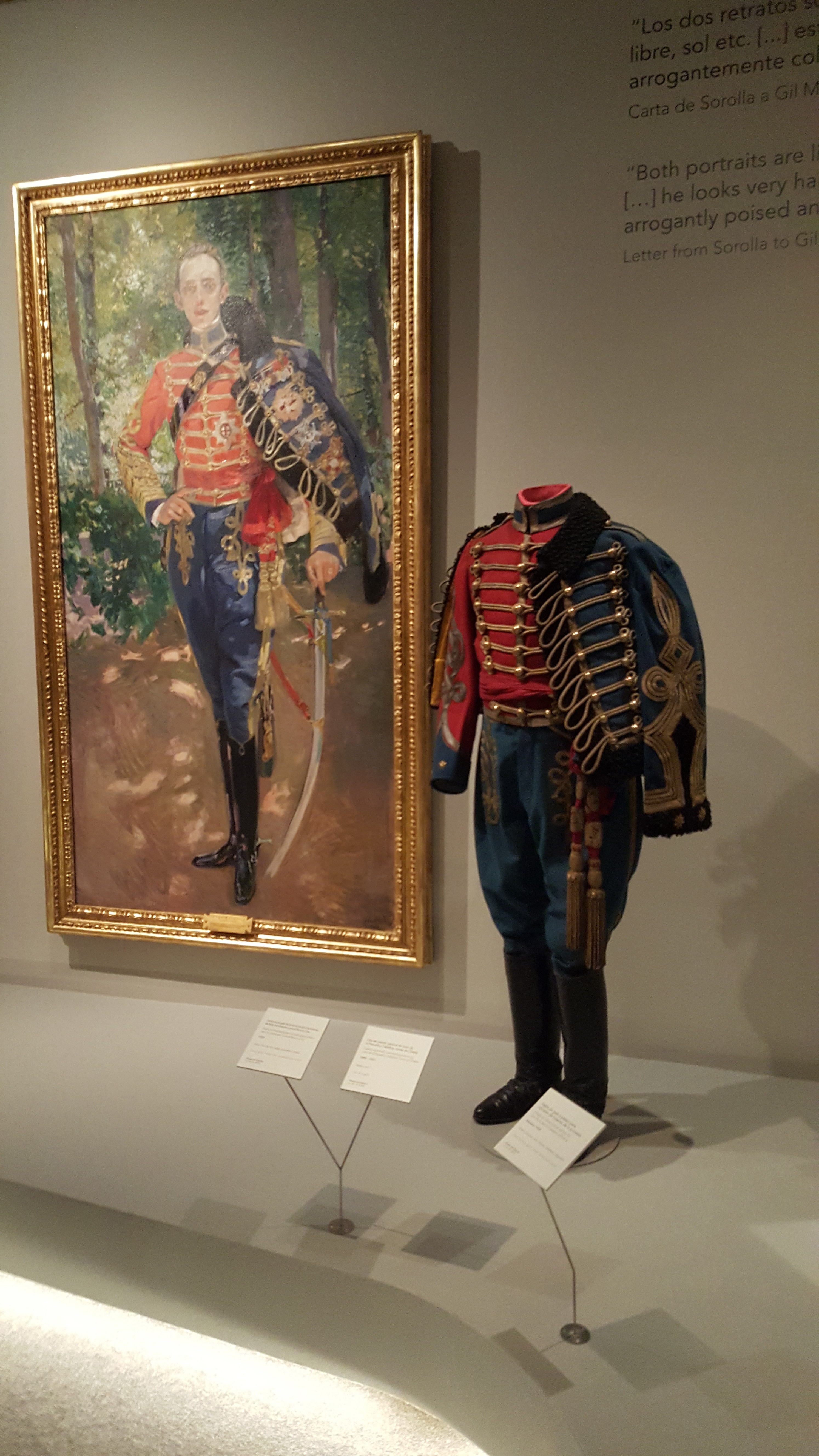 The painting Rey Don Alfonso XIII con el Uniforme De Husares and an original uniform in the exhibition Sorolla and fashion in the Museo Thyssen-Bornemisza in Madrid 2018